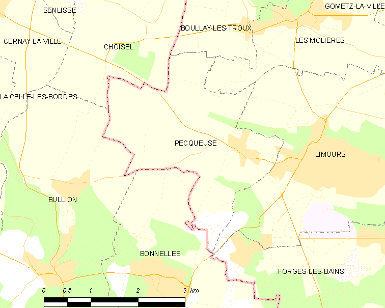 Map of French municipality Pecqueuse